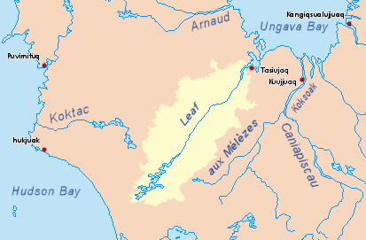 Drainage basin of the Leaf River, Quebec, Canada.